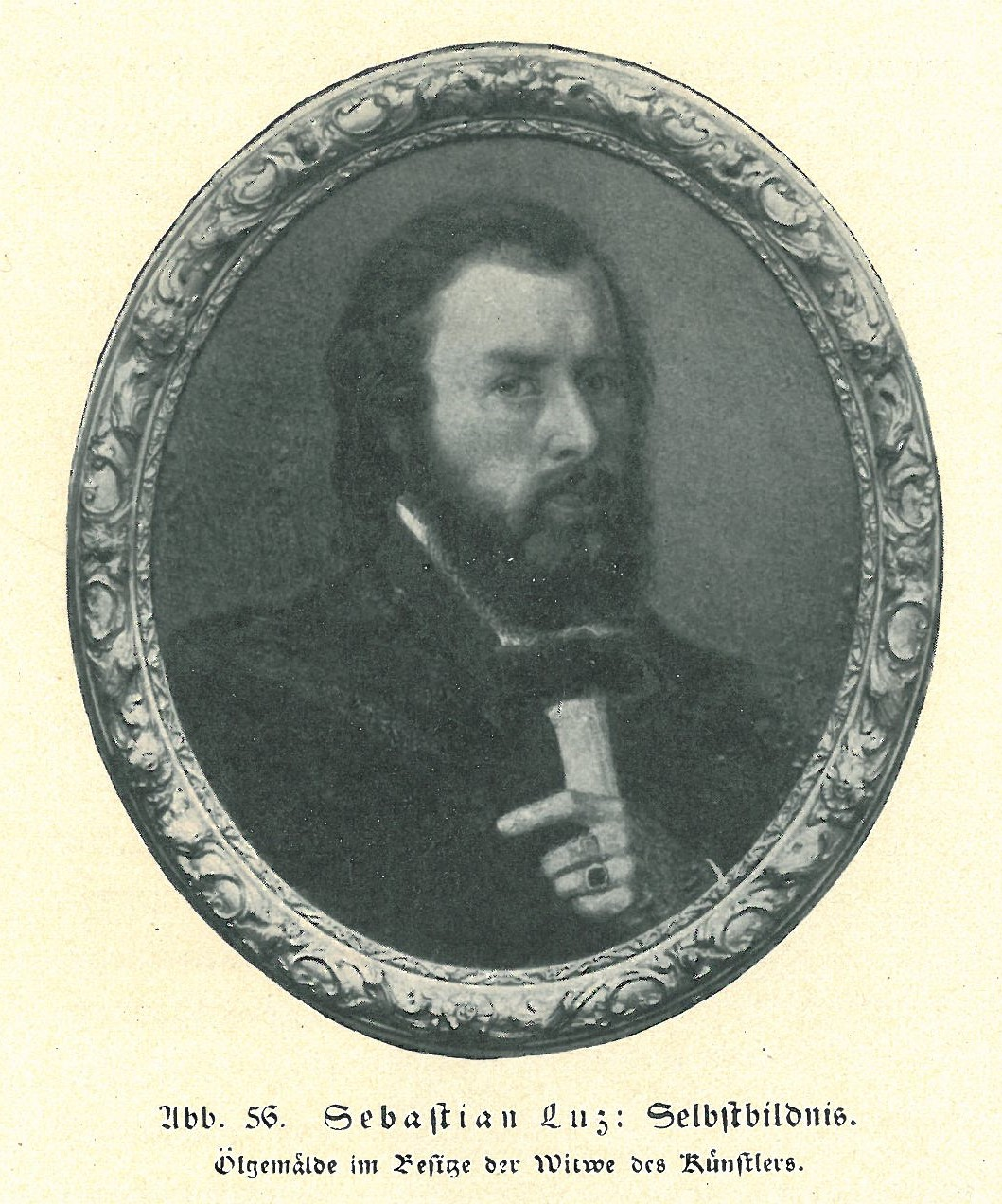 Self-portrait of the painter Sebastian Luz (1836-1898)